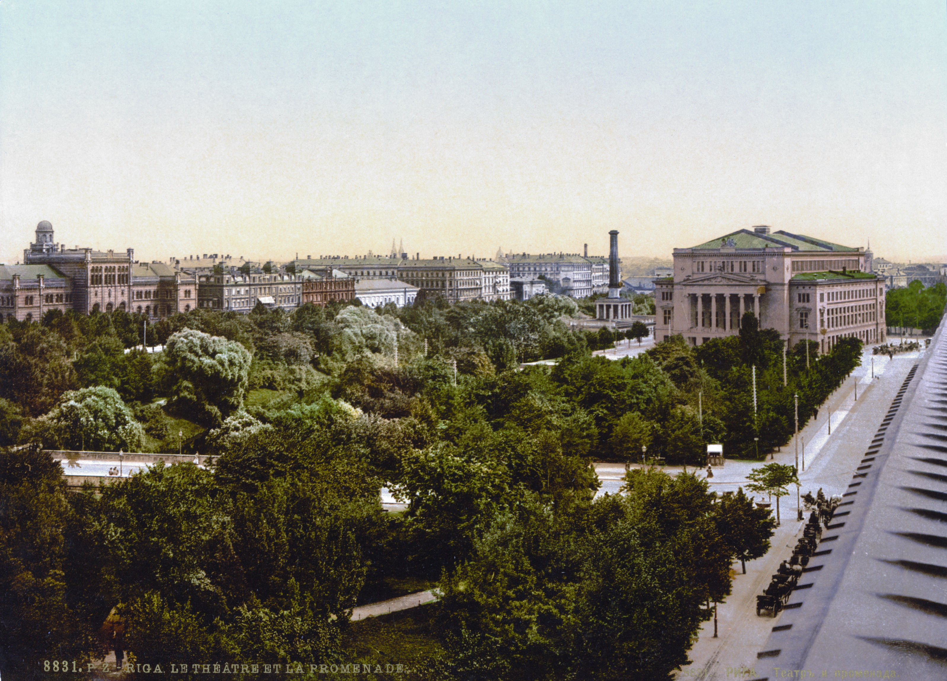 Theatre and promenade, Riga, Russia, (i.e., Latvia). The theatre was built in 1863 as Deutsches Theater (German Theatre). Today it is home to the Latvijas Nacionala opera (Latvian National Opera).